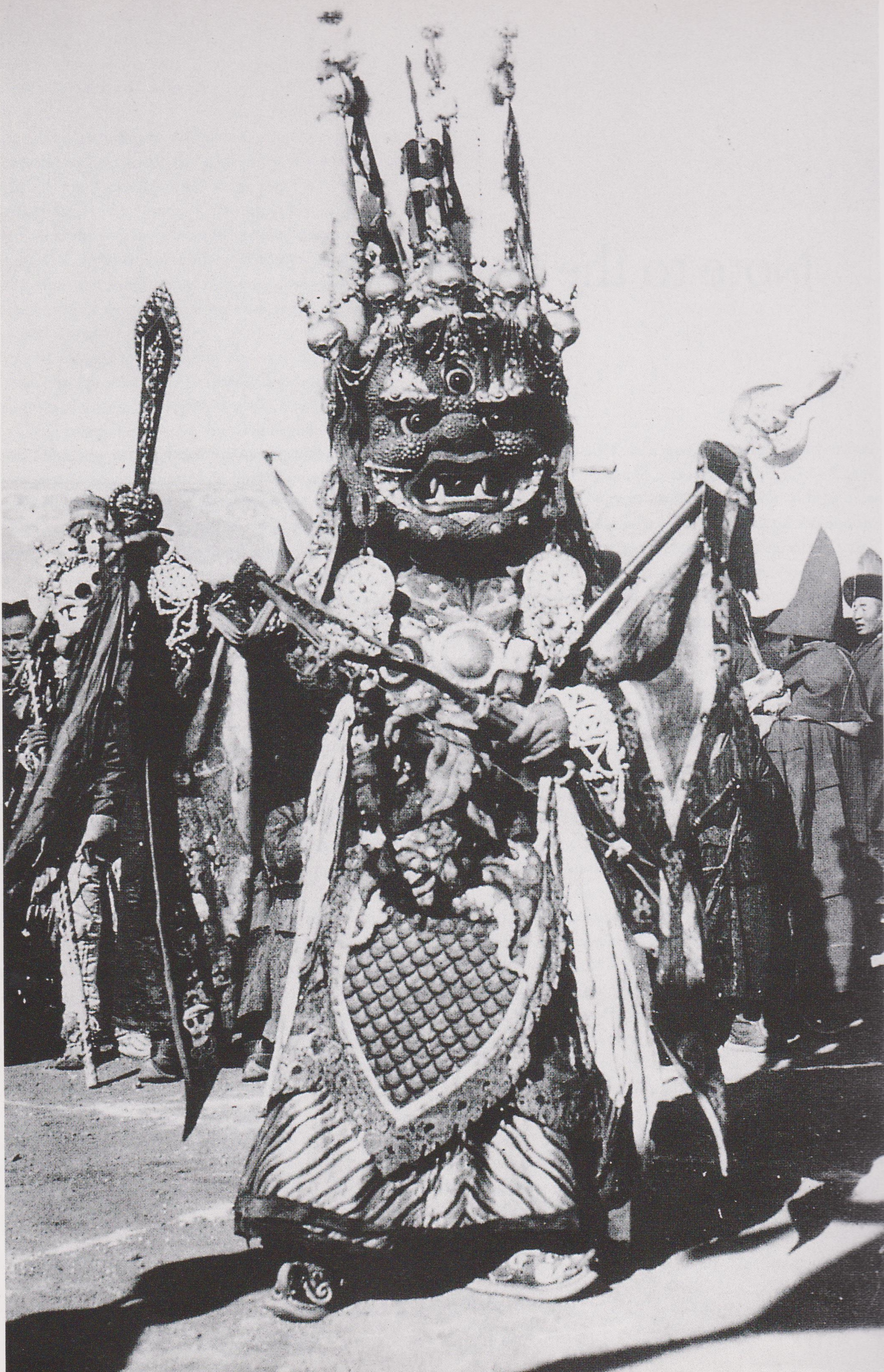 The main Mongolian deity Begtse in a cham-dance . photo from before 1930.